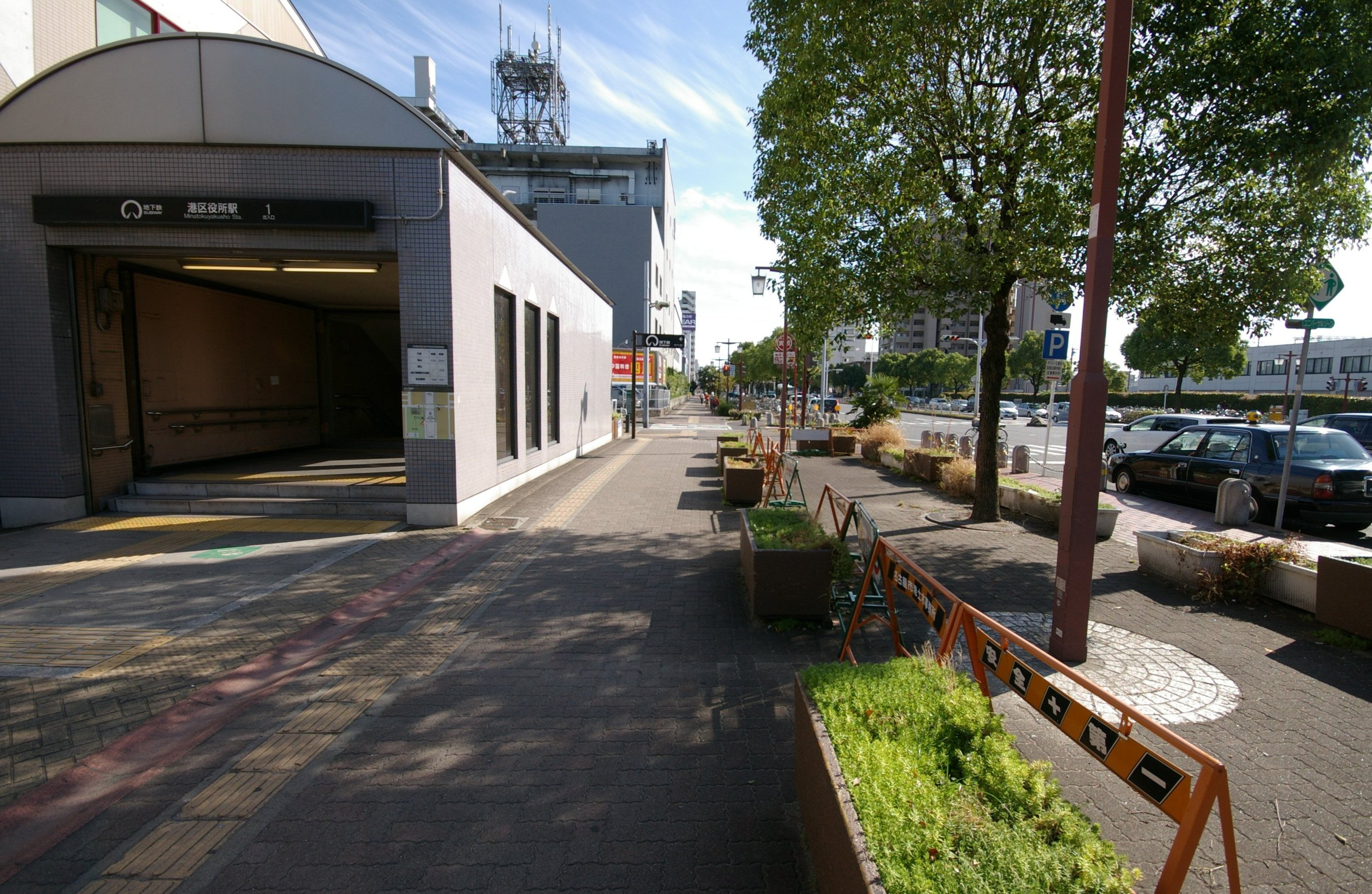 Nagoya Subway Minato Kuyakusho Station